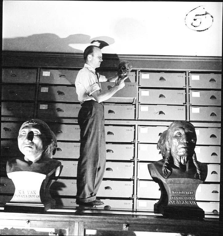 1950. T. Dale Stewart, physical anthropologist, Department of Anthropology, United States National Museum (now the National Museum of Natural History), stands on a ladder examining a skull in the collection area. Photograph was probably taken on October 3, 1950 by the Federal Bureau of Investigation. Stewart often examined skeletons for the FBI and pioneered in the field of forensic anthropology.